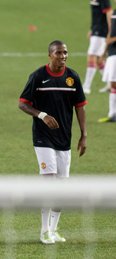 Ashley Young in training before the 2011 MLS all-stars game in the New York, USA.